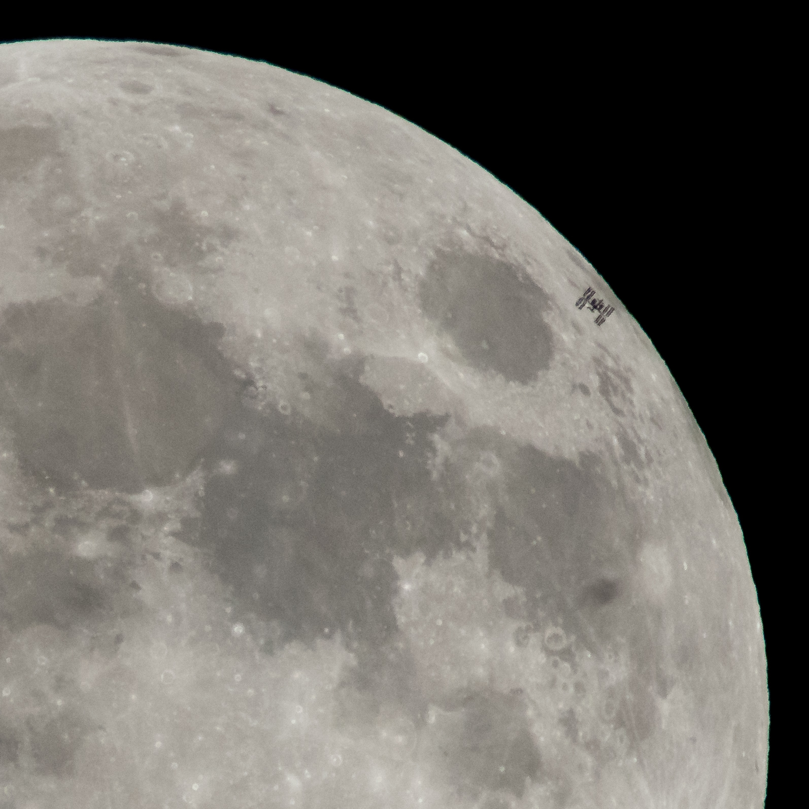 The International Space Station, with a crew of six onboard, is seen in silhouette as it transits the moon at roughly five miles per second Tuesday, Jan. 30, 2018, Alexandria, Virginia. Onboard are; NASA astronauts Joe Acaba, Mark Vande Hei, and Scott Tingle: Russian Cosmonauts Alexander Misurkin and Anton Shkaplerov, and Japanese astronaut Norishige Kanai.